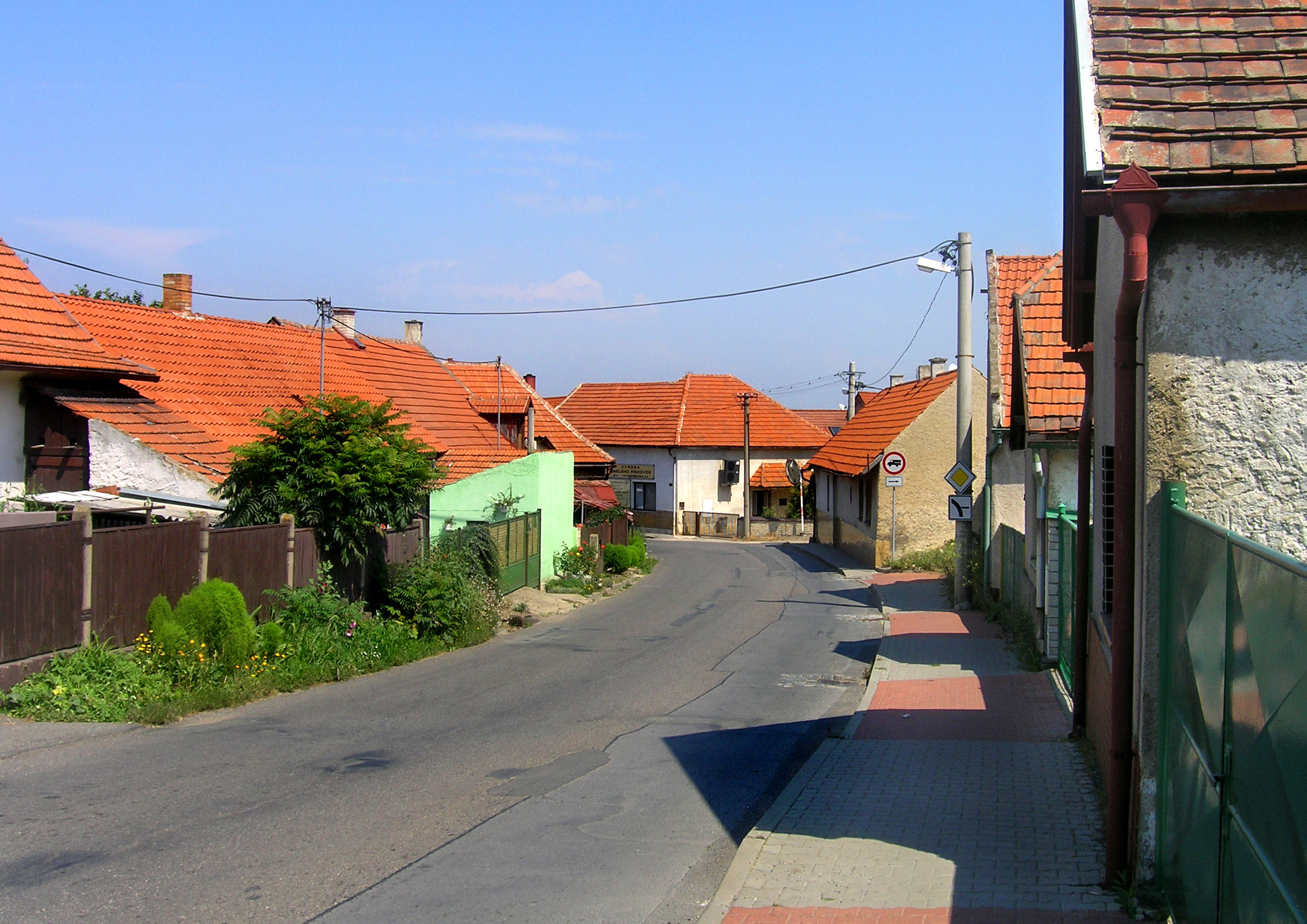 Sibřina village near Prague. Czech Republic